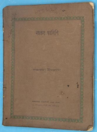 Cover of a book of notation of Nazrul songs, prepared by Poet Kazi Nazrul Islam himself.